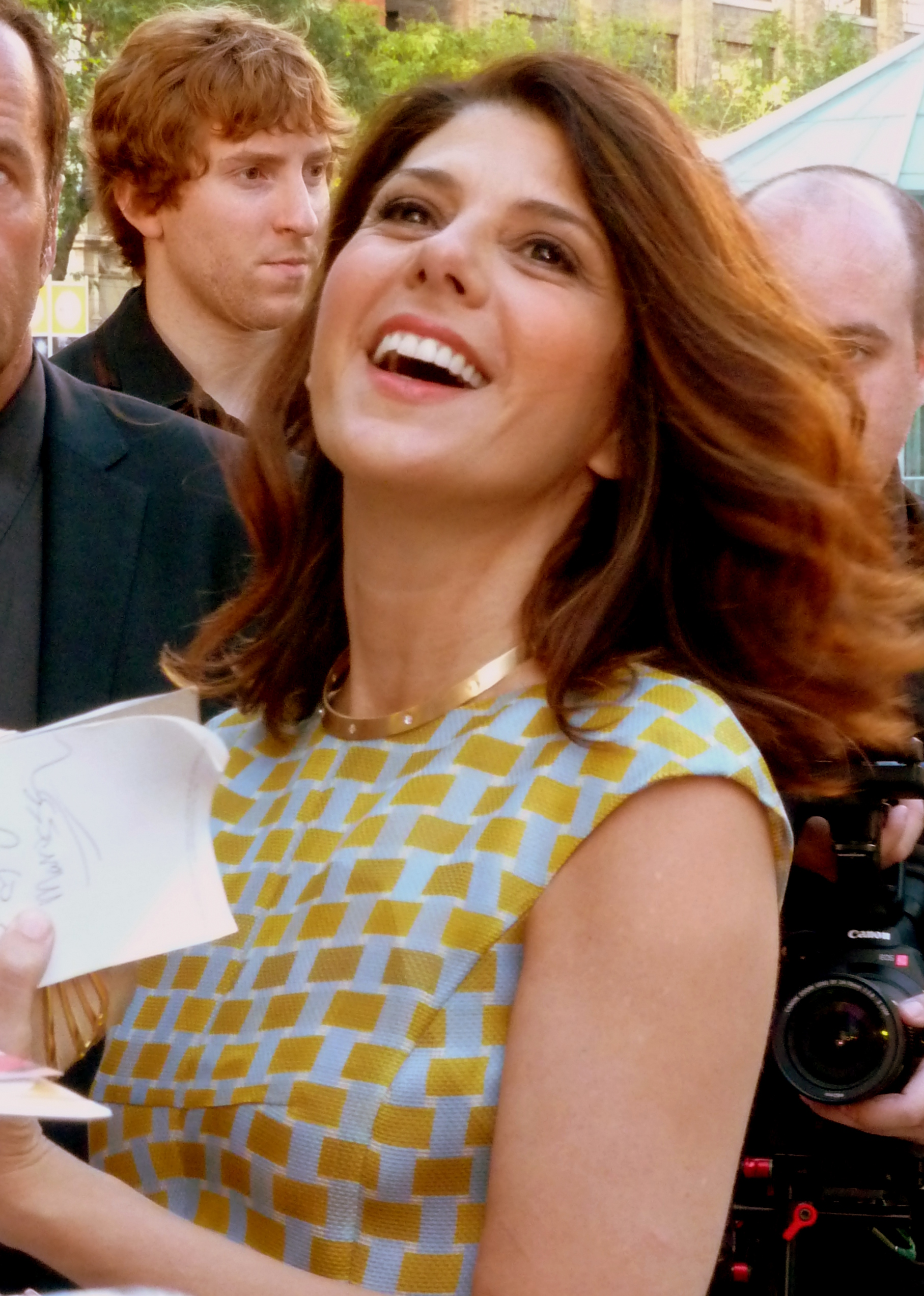 Marisa Tomei at the premiere of Inescapable, in the Toronto Film Festival 2012.